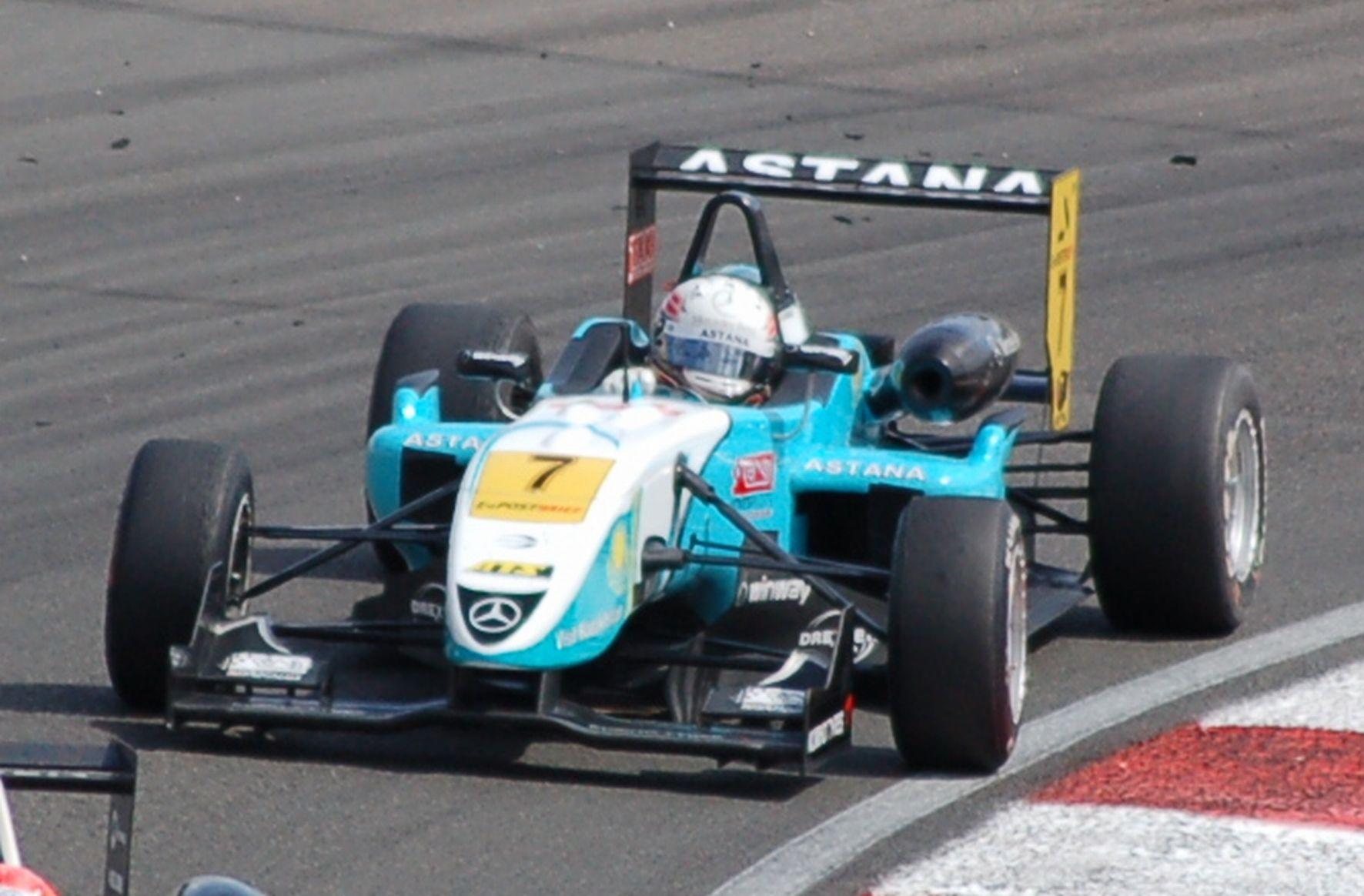 Daniel Juncadella at Zandvoort 2011